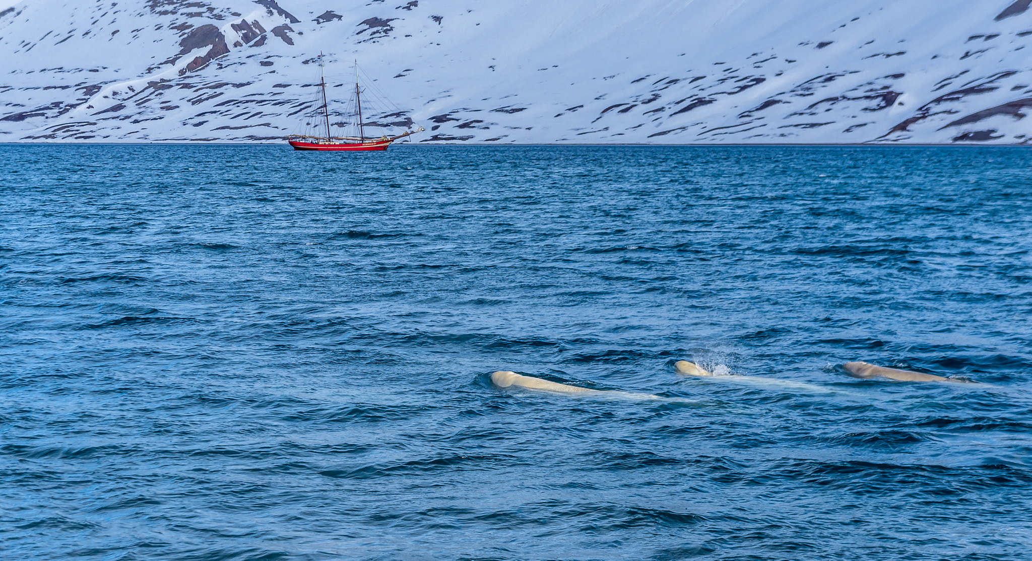 500px provided description: Picture taken during holidays in Svalbard. It was amazing to see a big group of belugas swimming so close. [#wildlife ,#whale ,#arctic ,#svalbard ,#spitsbergen ,#beluga]